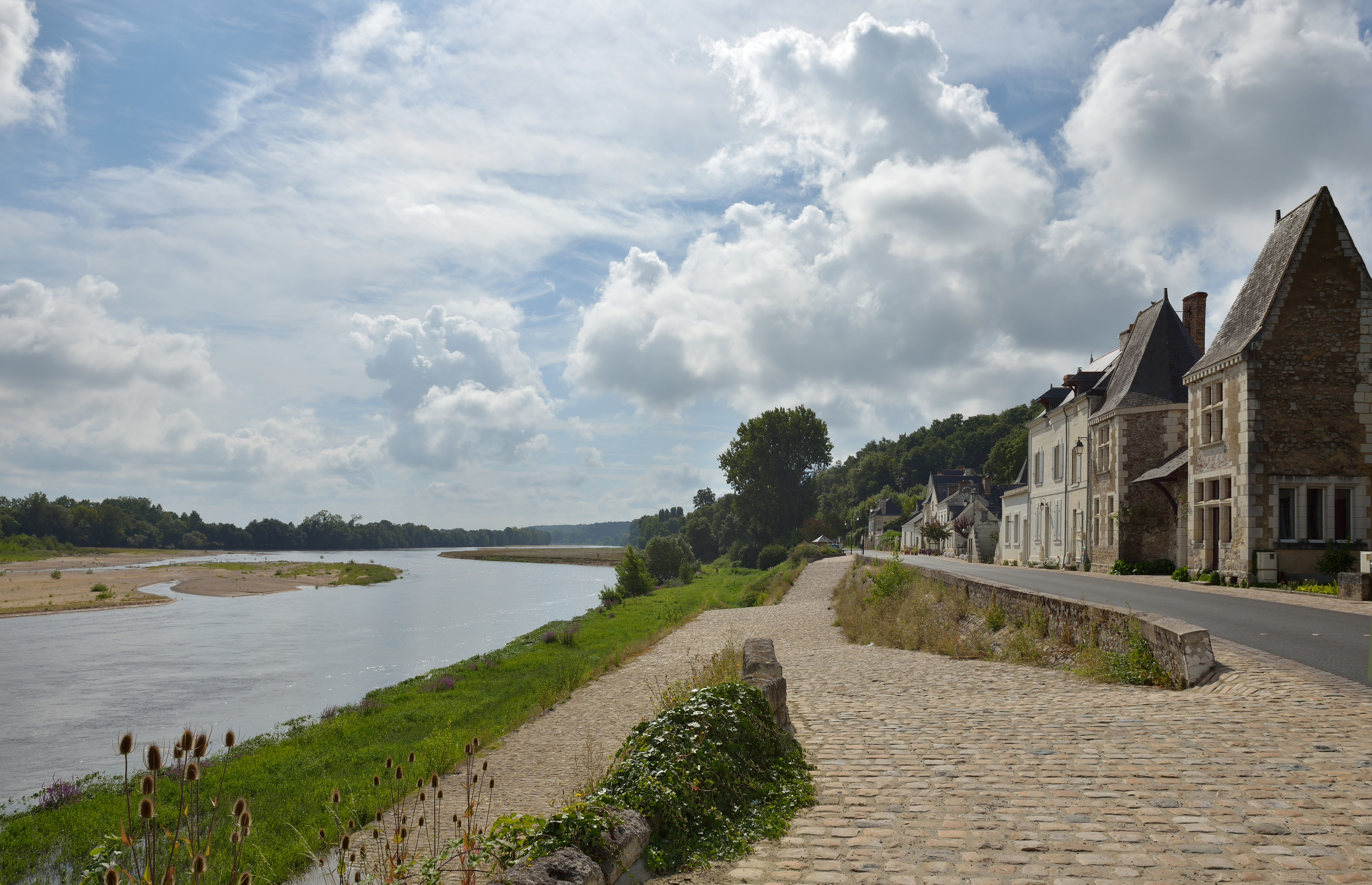 View of the Loire from Chênehutte-Trèves-Cunault in France